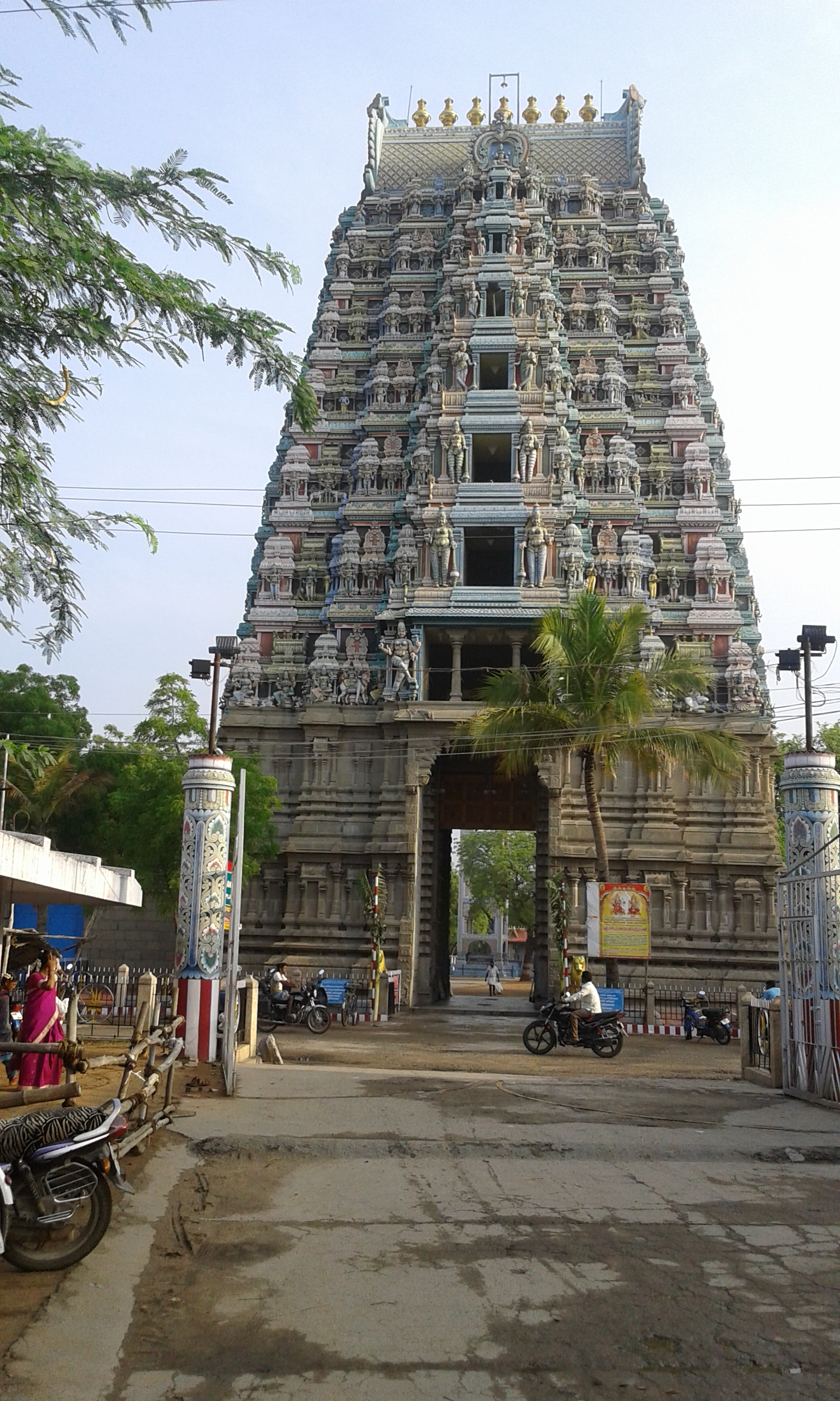 Bhadrakali Amman, Sivakasi